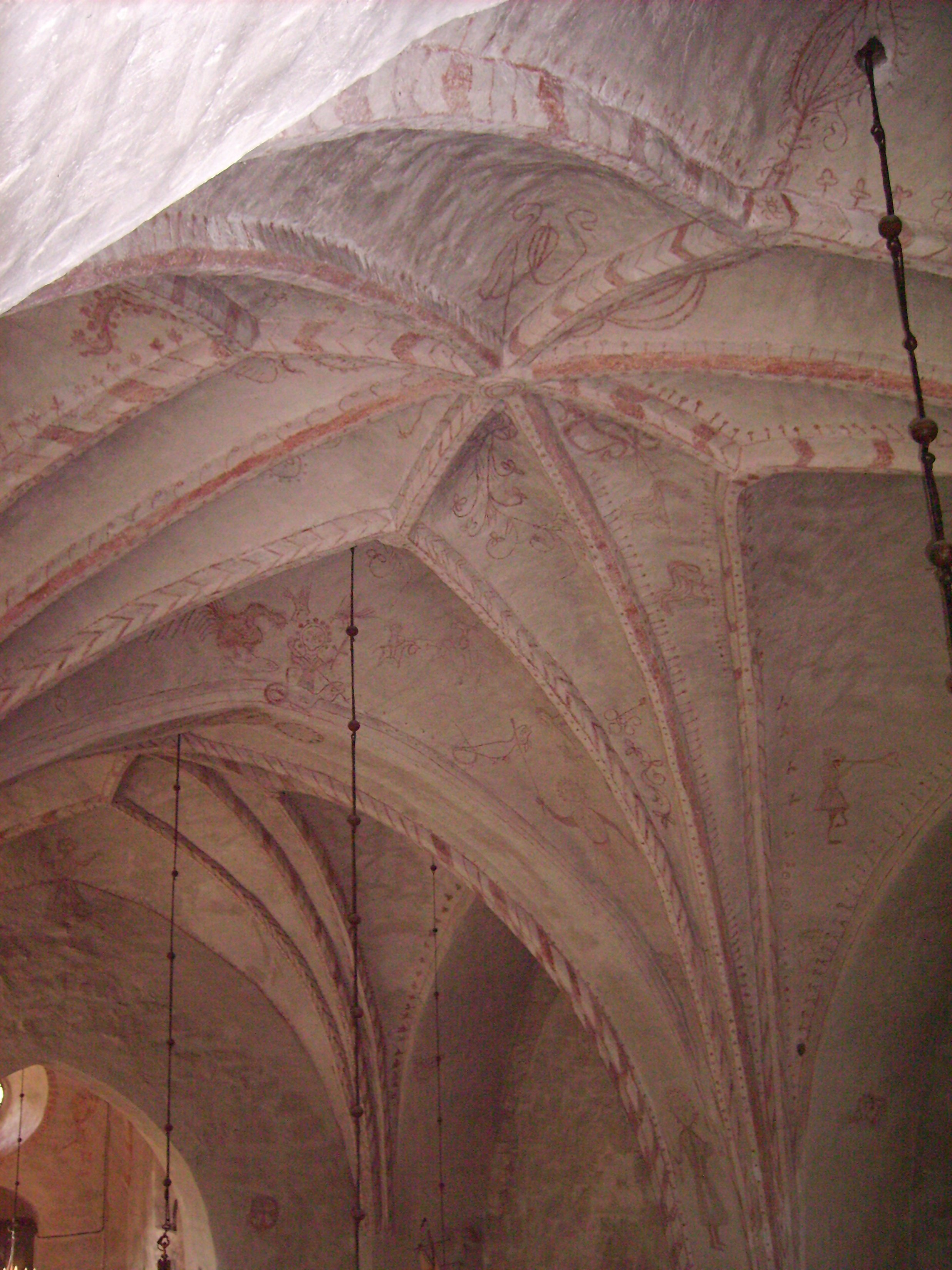 Ceiling of the medieval church in Korpo, Finland